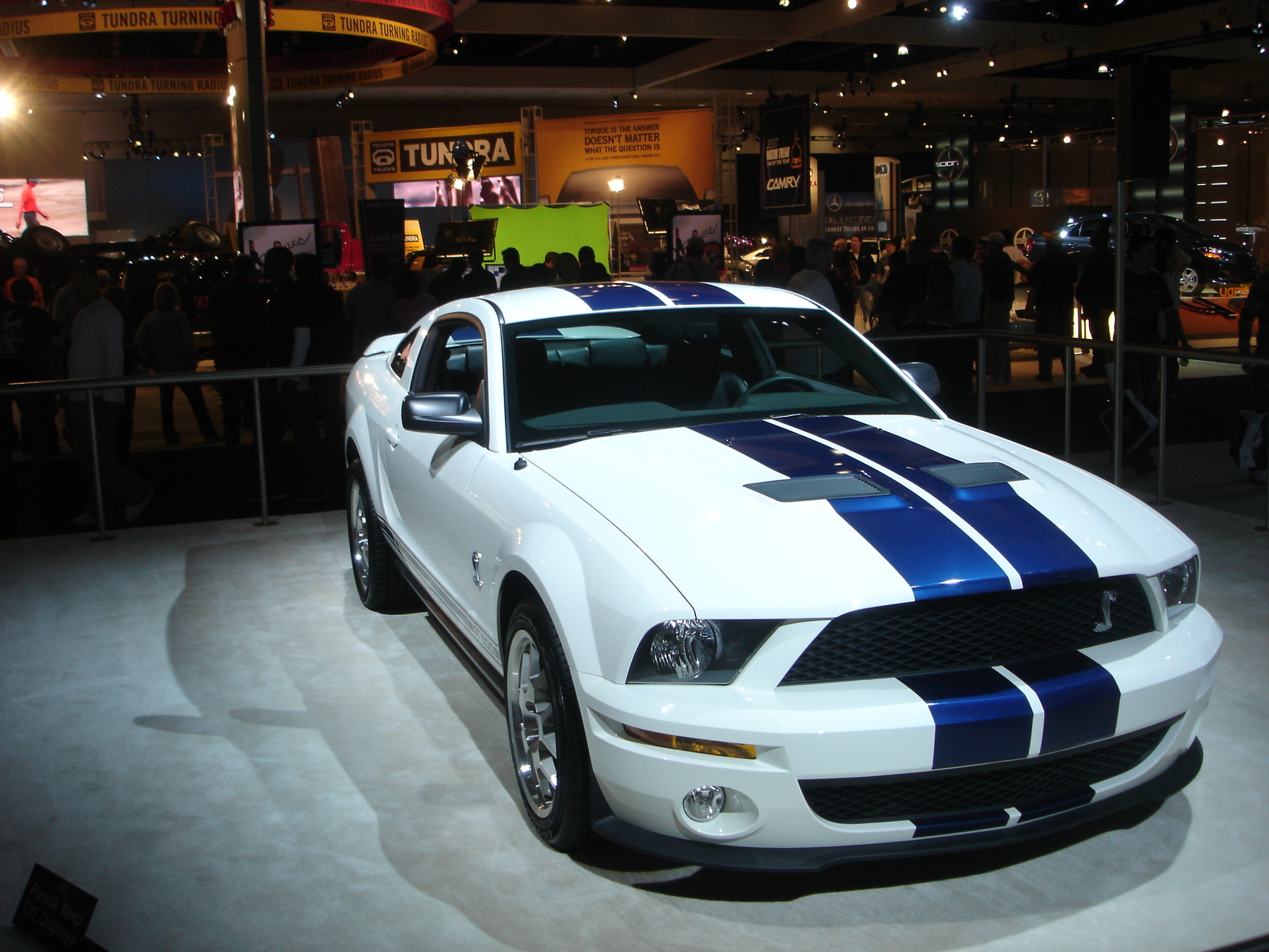 Ford Mustang GT500 at the 2006 LA Auto Show